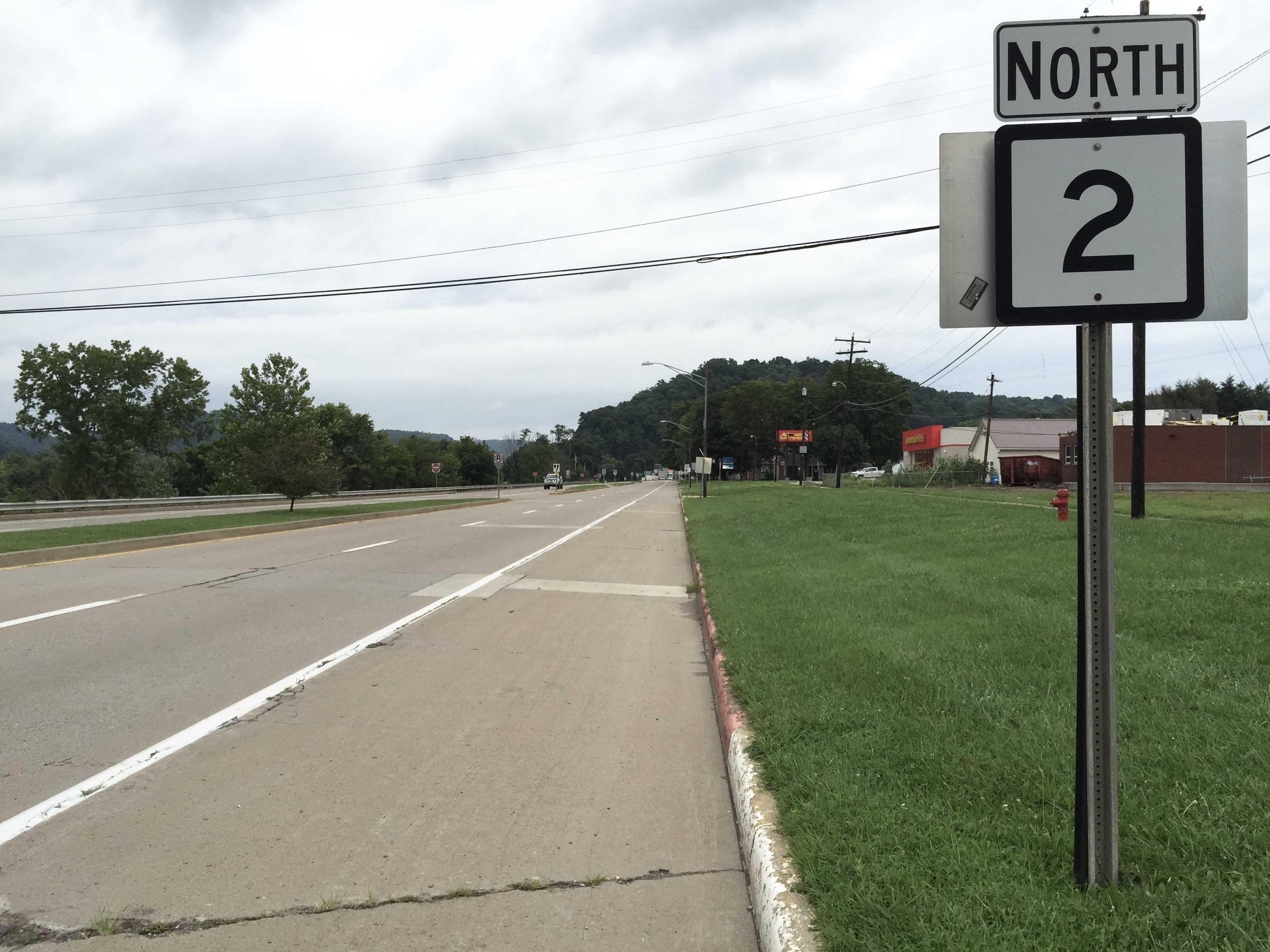 View north along West Virginia State Route 2 (Second Street) at West Virginia State Route 16 (High Street) in Saint Marys, Pleasants County, West Virginia